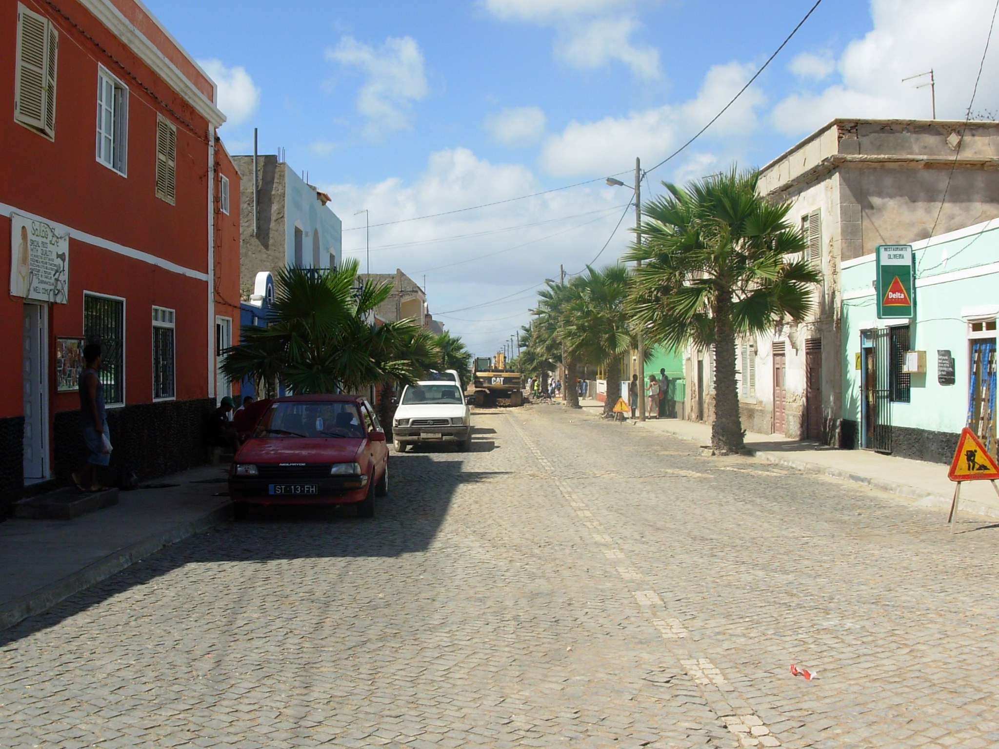 Typical street in Santa Maria, Sal island, Cape Verde